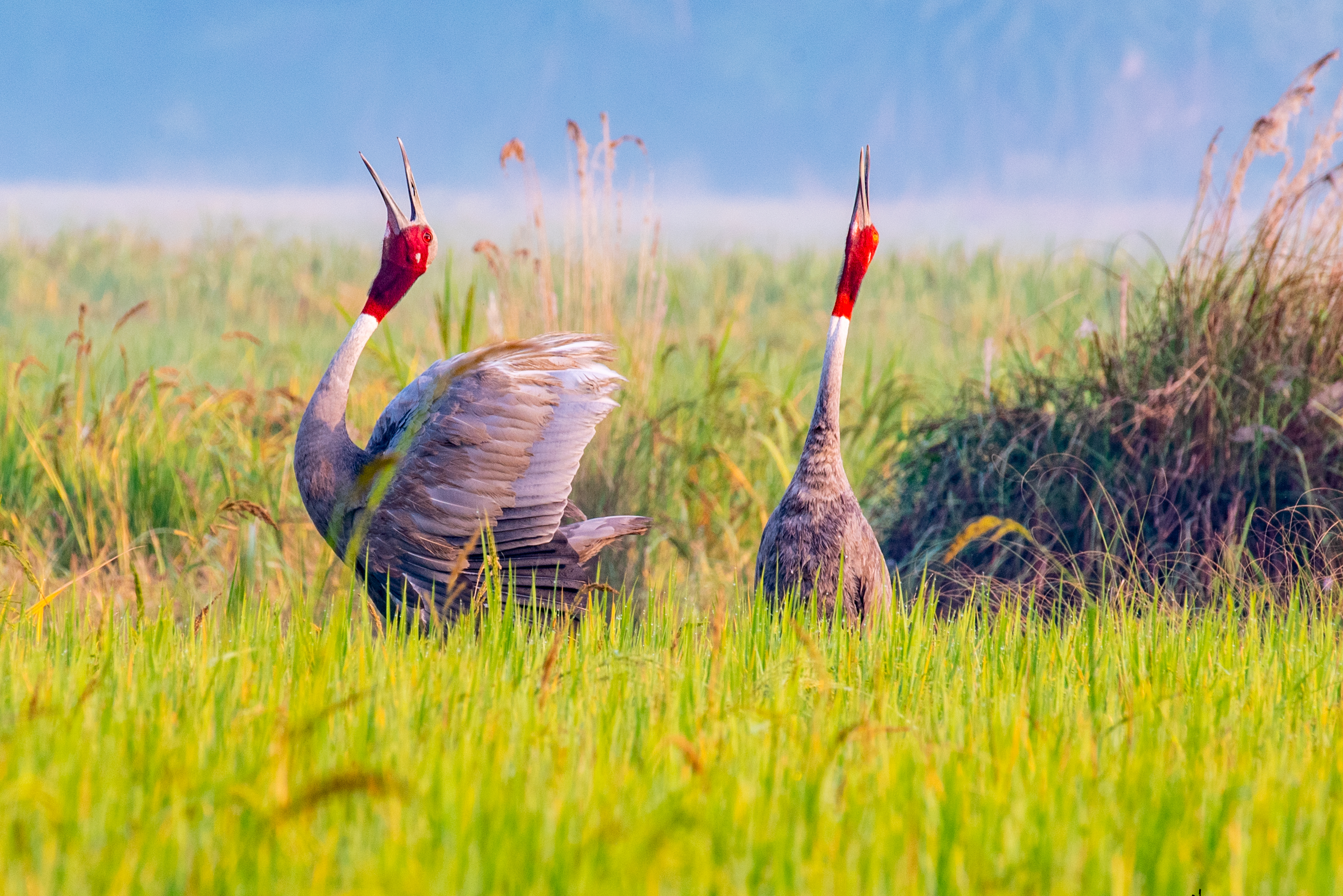 The largest flying bird Sarus Crane, pairs for a lifetime, and at regular intervals demonstrates its relationship thru a courtship dance and a duet that both the birds sing. With a rapidly declining population the Sarus Crane is classified as 'Vulnerable' with a population of 10,000 - 20,000 birds in the wild. Most Sarus Cranes in the region nest in irrigated wet rice fields, some in Uttar Pradesh remaining on their breeding territories all year. Their future is highly dependent on persistence of suitable agricultural conditions and favourable community attitudes. The spread of urban areas and industrial development across wetland areas increases threats from drainage, diversions, and mechanised agriculture, especially if combined with variable rainfalls. In Uttar Pradesh many immature Sarus collide with electricity distribution lines and are killed. Accidental poisonings from agricultural chemicals also pose serious risk.